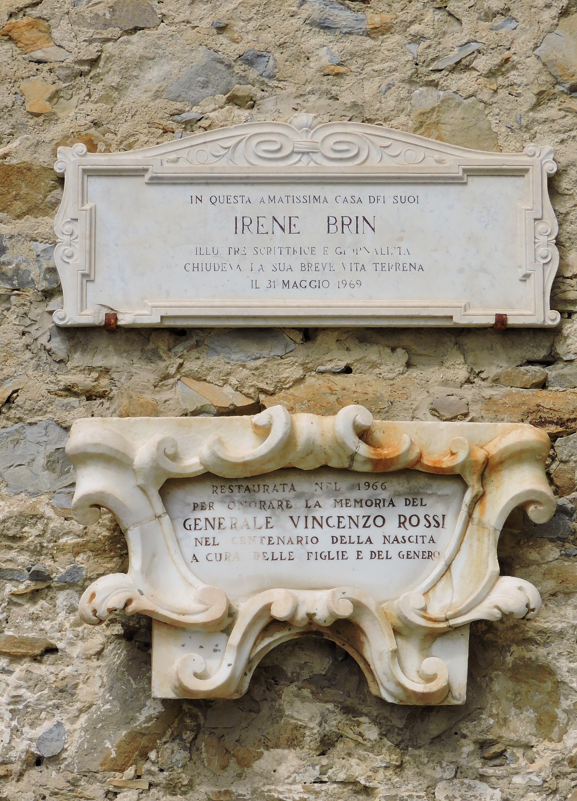 Sasso di Bordighera (IM, Italy): memorial tablets to Irene Brin and Vincenzo Rossi